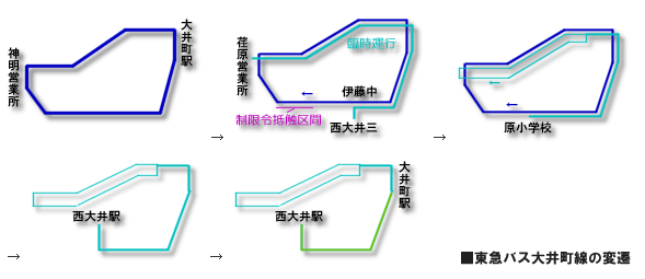 history of Tokyu bus Oimachi line